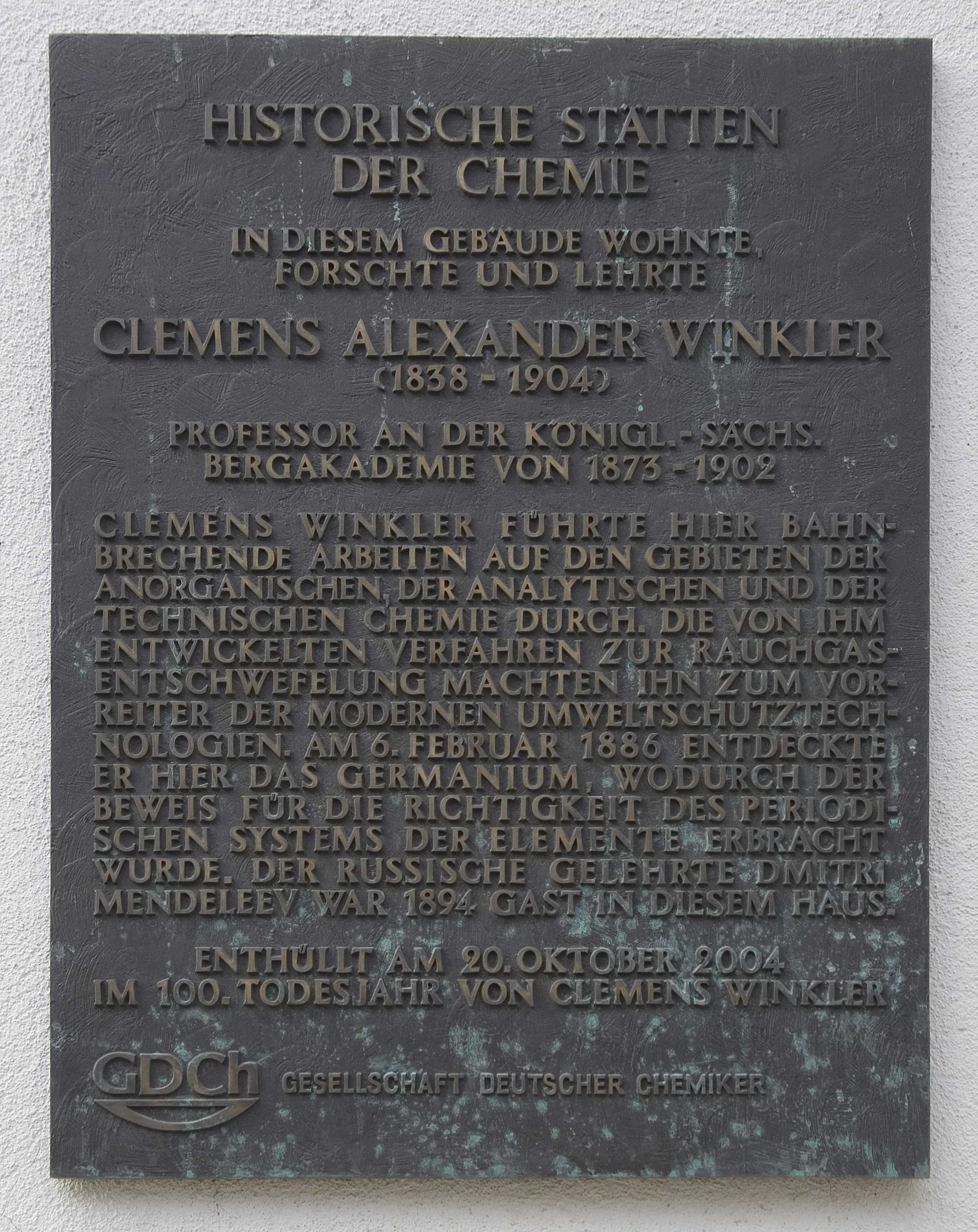 Clemens Winkler, commemorative plaque in Freiberg, Brennhausgasse 5, where he lived and worked from 1873 to 1902